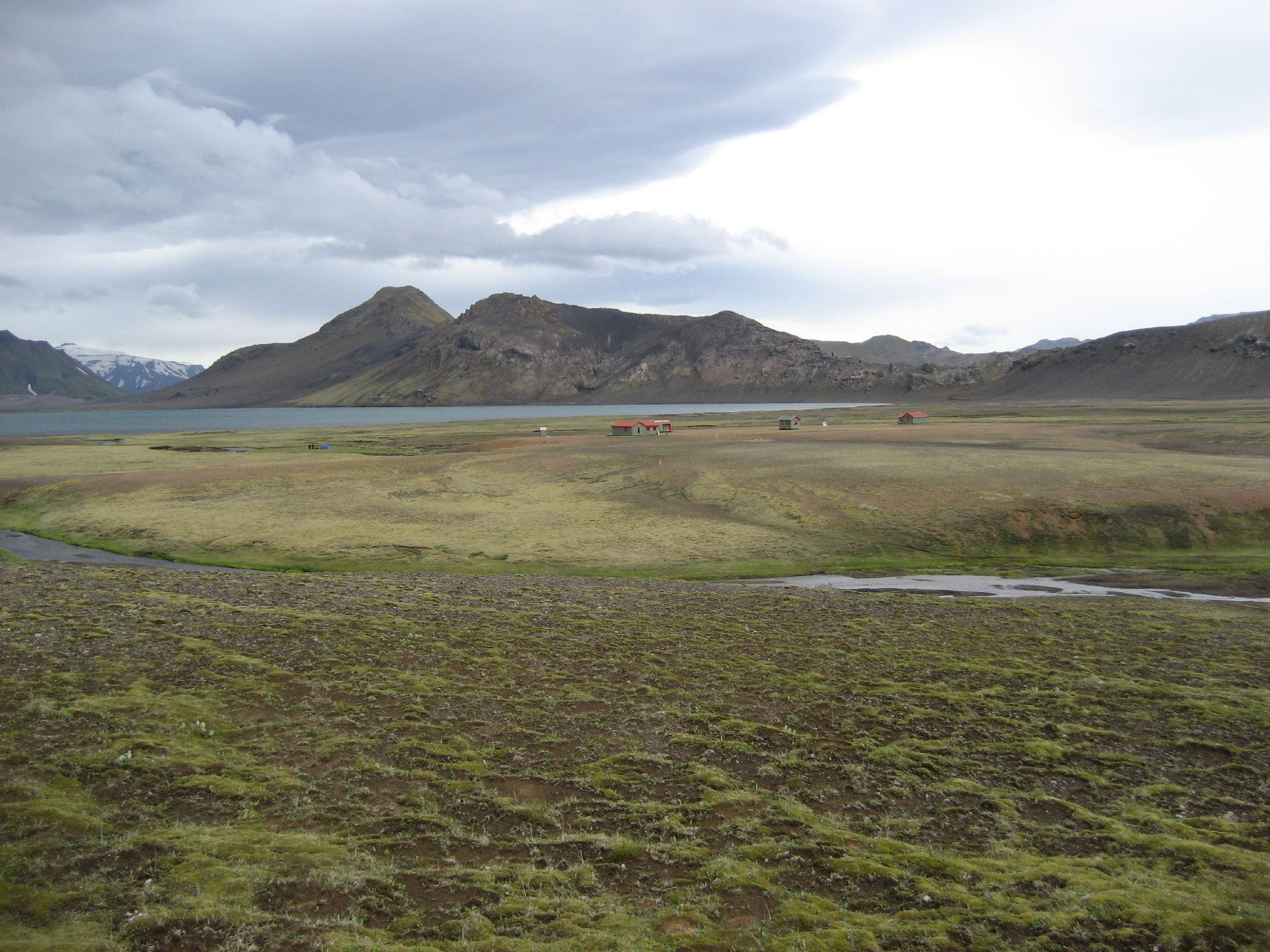 Big scenery, small hut...(you see it?) this is Alfavatn.